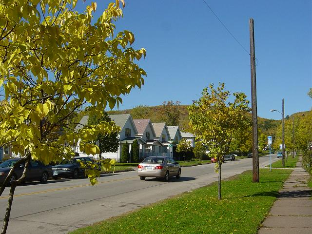 Some homes on 40th Ave. West in Duluth with fall foliage showing. Taken October 14, 2005 by Jacob Norlund (me).